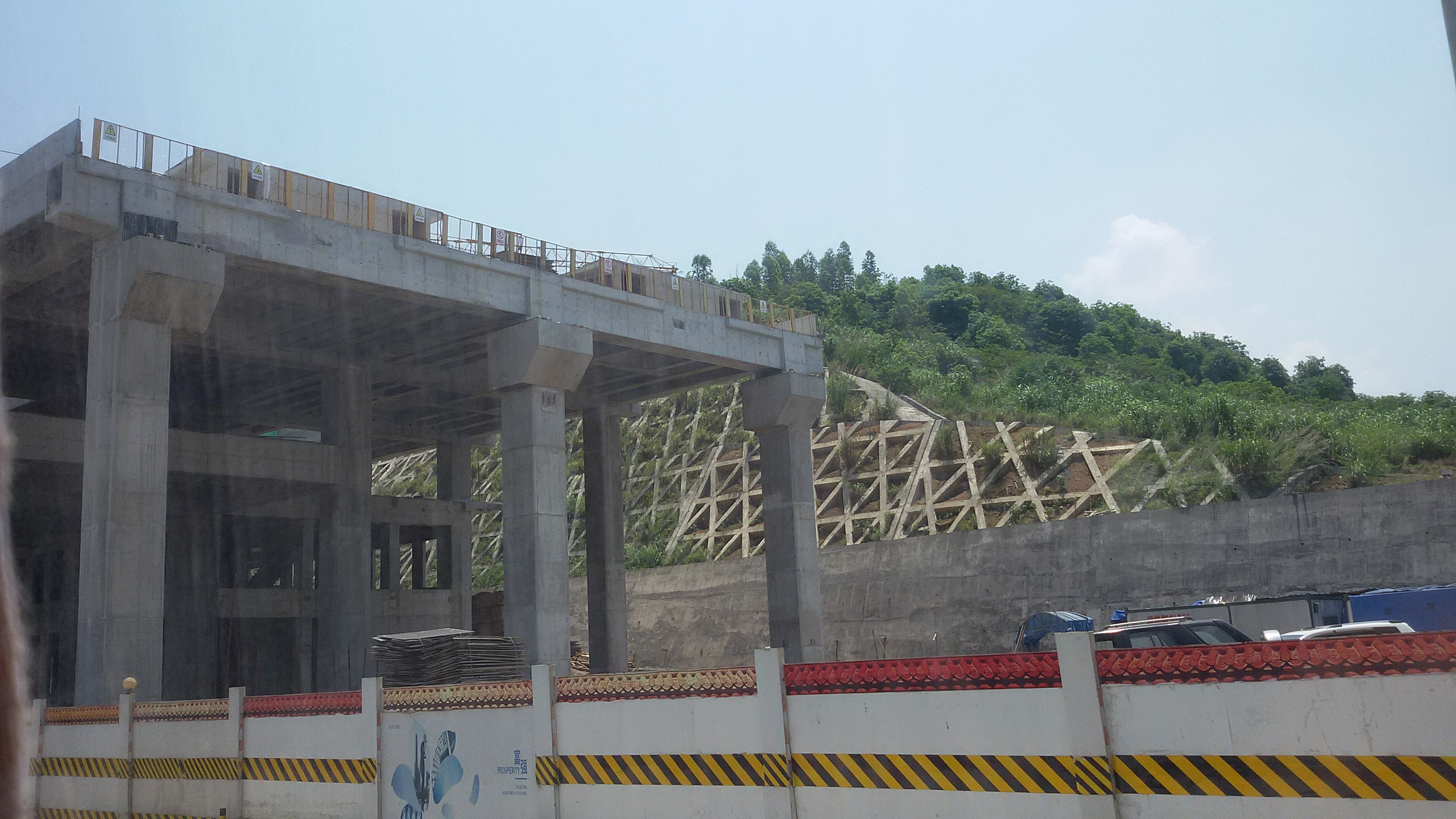 2017年4月29号，邓村站喺度起紧。